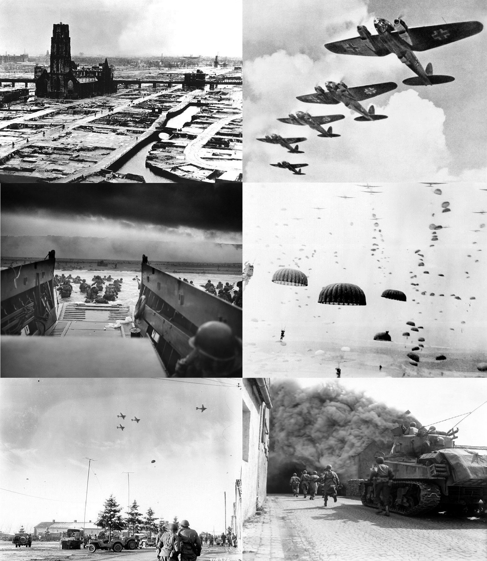 Top row: Rotterdam after bombing, German planes during the Battle of Britain. Middle Row: American troops during the Invasion of Normandy, Allied paratroopers during Operation Market Garden. Bottom Row: Battle of Bastogne, American troops during the Invasion of Germany